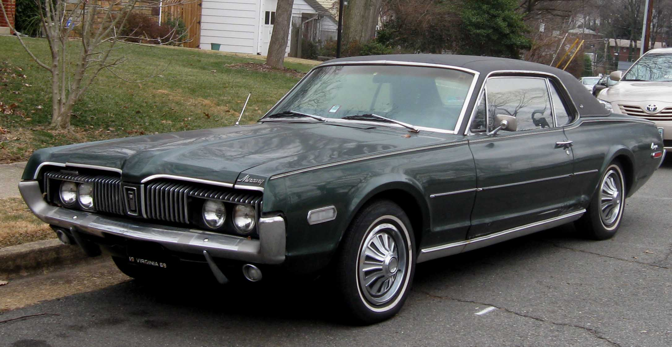 1968 Mercury Cougar photographed in Alexandria, Virginia, USA.